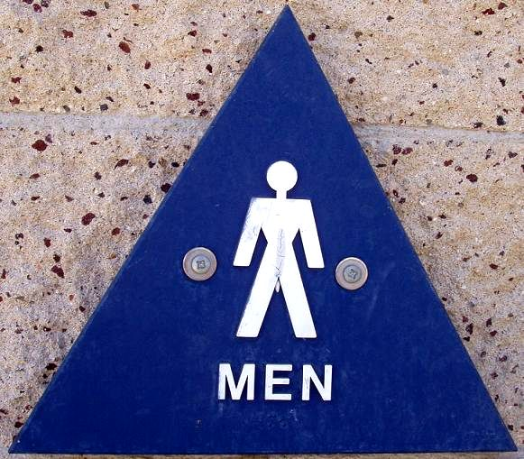 I photographed this picture from a public restroom. It is a male symbol for the men's restroom. I intend to use it on the toilet article to show the two commonly used male and female pictograms on public restrooms in the United States--Dark Tichondrias 08:01, 12 July 2006 (UTC) For alternative version (more standard AIGA symbol), see Image:Aiga toiletsq men.svg .